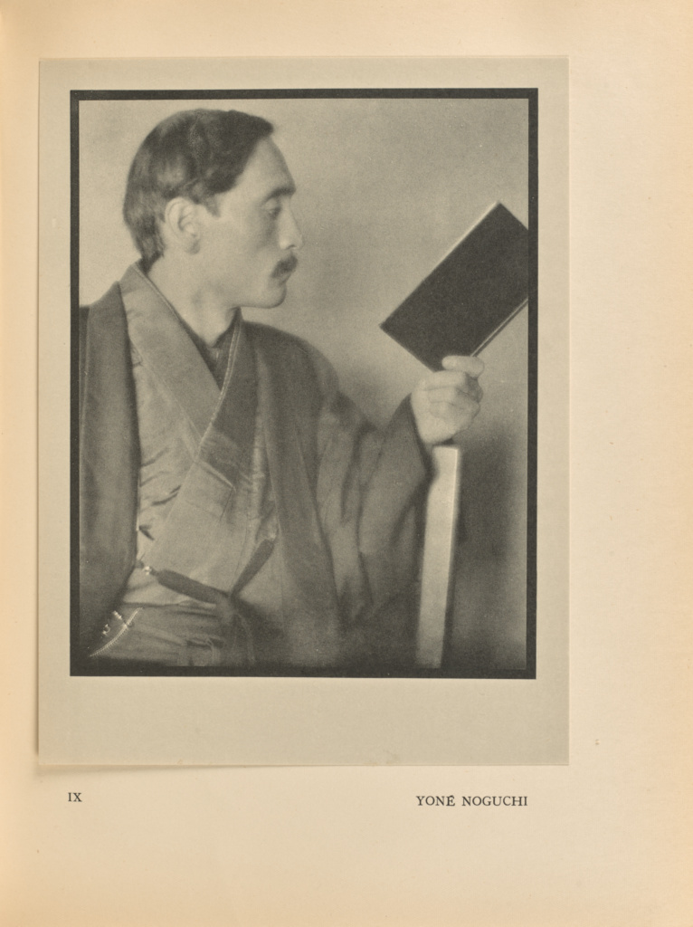 Yoné Noguchi in More Men of Mark (New York, 1922) by Alvin Langdon Coburn (British, born America, 1882 - 1966); New York, United States; negative December 14, 1913; print 1922; Collotype; 18.4 × 14.4 cm (7 1/4 × 5 11/16 in.); 84.XO.1354.9 digitized by the J. Paul Getty Museum